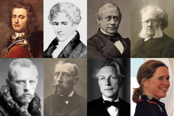 Collage of images representing the Norwegian people. Top Row (left to right): Peder Tordenskjold, Niels Henrik Abel, Frederik Stang, Henrik Ibsen. Bottom Row (left to right): Fridtjof Nansen, Roald Amundsen, Eivind Groven, Liv Ullmann. Amended version of Image:Norwegians (ethnic group).jpg. This revised version has removed an image that required copyright name of author and replaced it with Henrik Ibsen, since he's just about the most famous Norwegian to date.